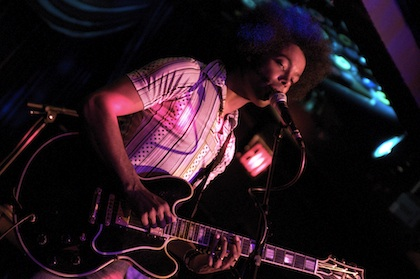 Alex Cuba - Live in Concert (photo by Scott Dudelson)